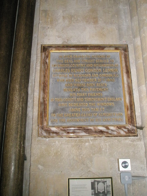 Memorial to a fine public servant within Chichester Cathedral Nmaely the 6th Duke of Richmond Charles_Gordon-Lennox,_6th_Duke_of_Richmond